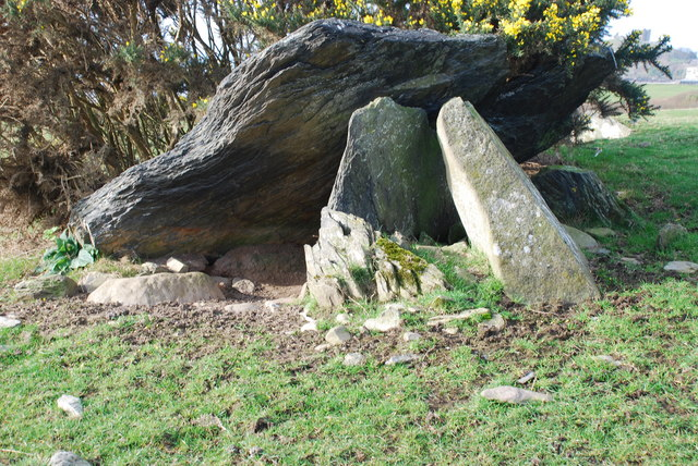 Cromlech Caer-dyni Burial Chamber